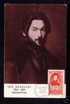 Self-portrait on postcard